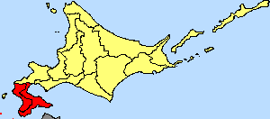 Oshima Peninsula